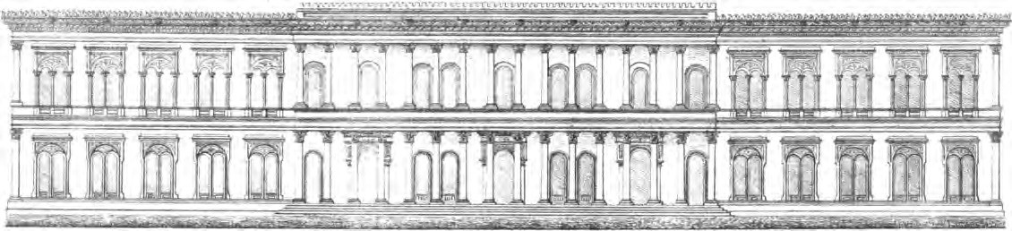 Byzantinai meletai topographikai (1877) Author: Paspatēs, Alexandros Geōrgiou, 1814-1891. [from old catalog] Subject: Inscriptions, Greek Year: 1877 Possible copyright status: NOT_IN_COPYRIGHT Language: English Digitizing sponsor: Google Book contributor: Oxford University Collection: europeanlibraries